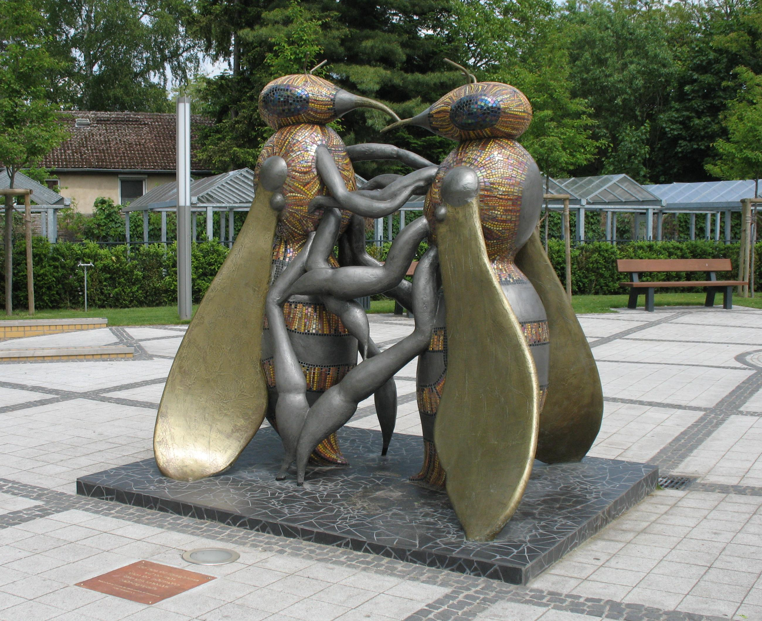 Honey bee memorial in Hohen Neuendorf in Brandenburg, Germany